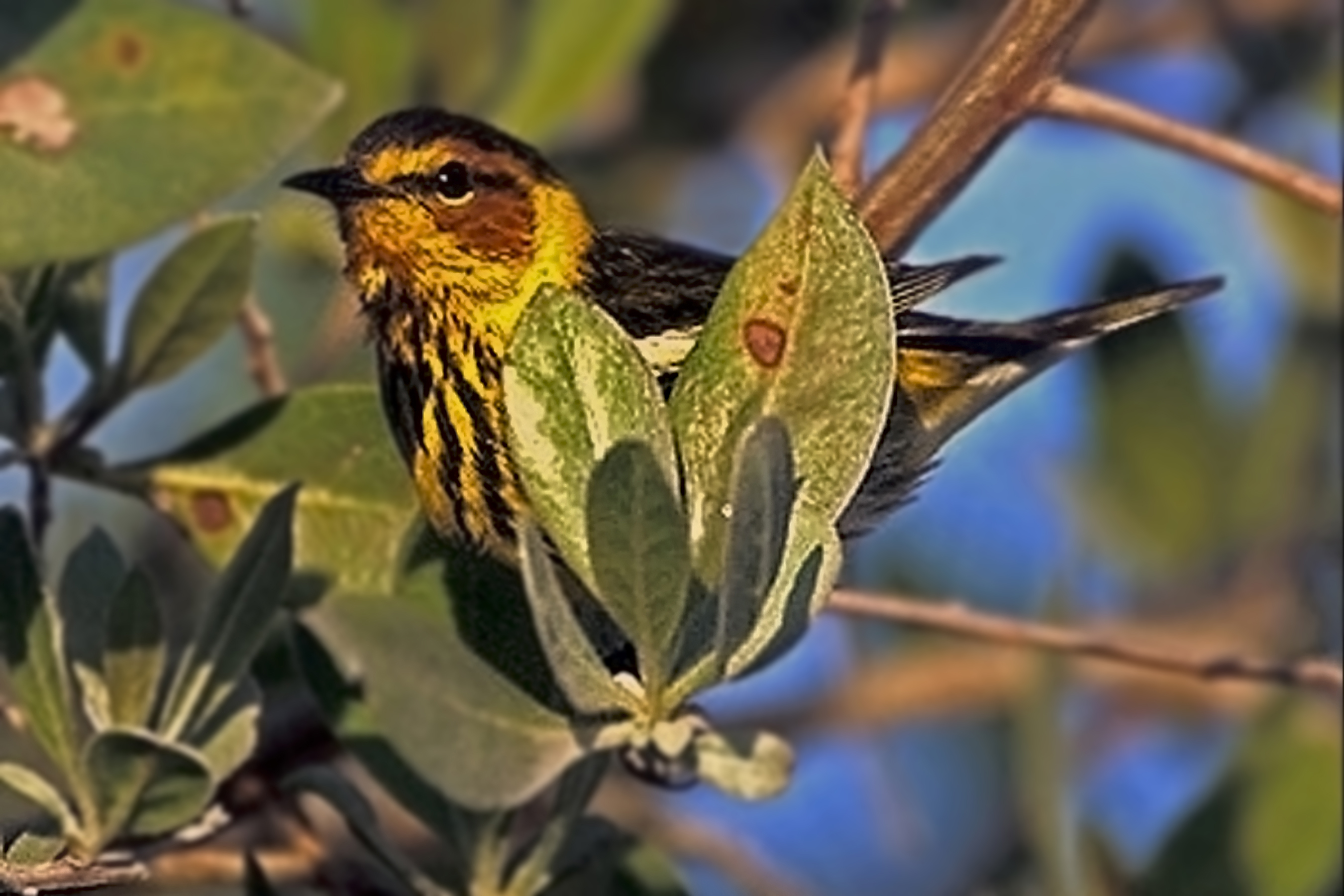 Cape May Warbler. Fall Migrant taking the Atlantic Flyway north in the spring; photographed a stop on that flyway after crossing the Gulf of Mexico: Sanibel Island, Florida.